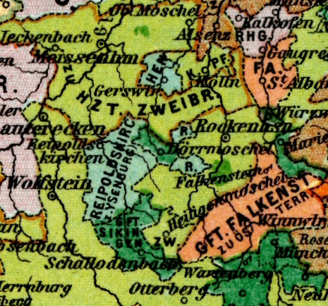 map of the lordship of Reipoldskirchen